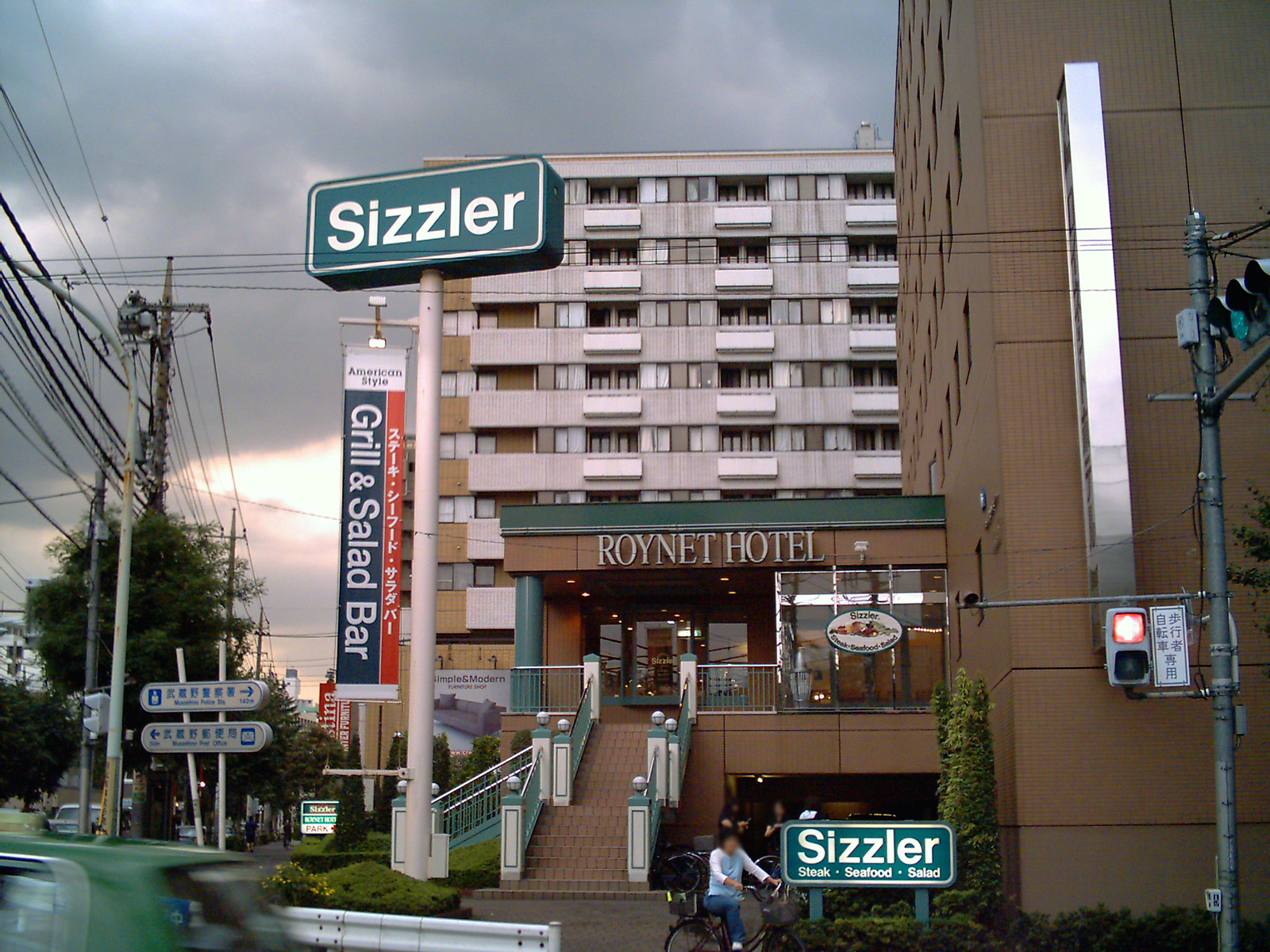 Sizzler_Restaurant_musashino City japan photography day, 2006.9.29. photography person kici